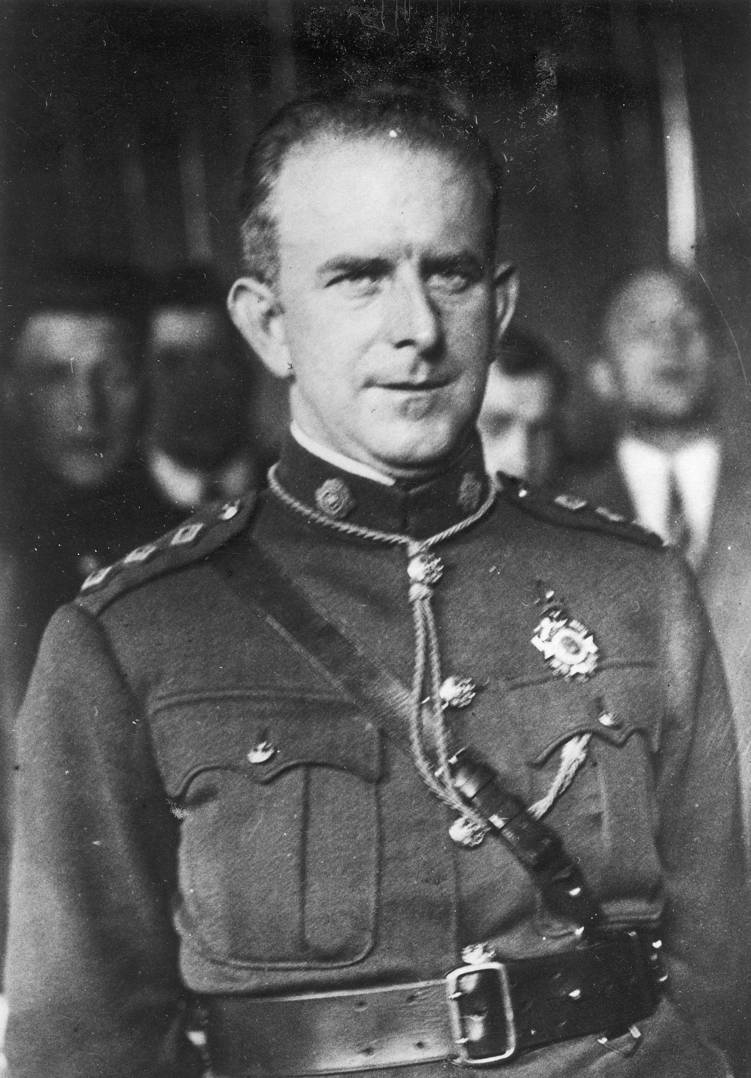 Eoin O'Duffy in police commissioner uniform.